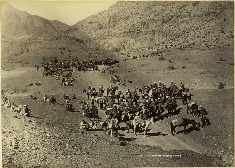 "Caravan, Khyber Pass," a photo by Bourne and Shepherd, c.1880's*Source: ebay, Nov. 2007